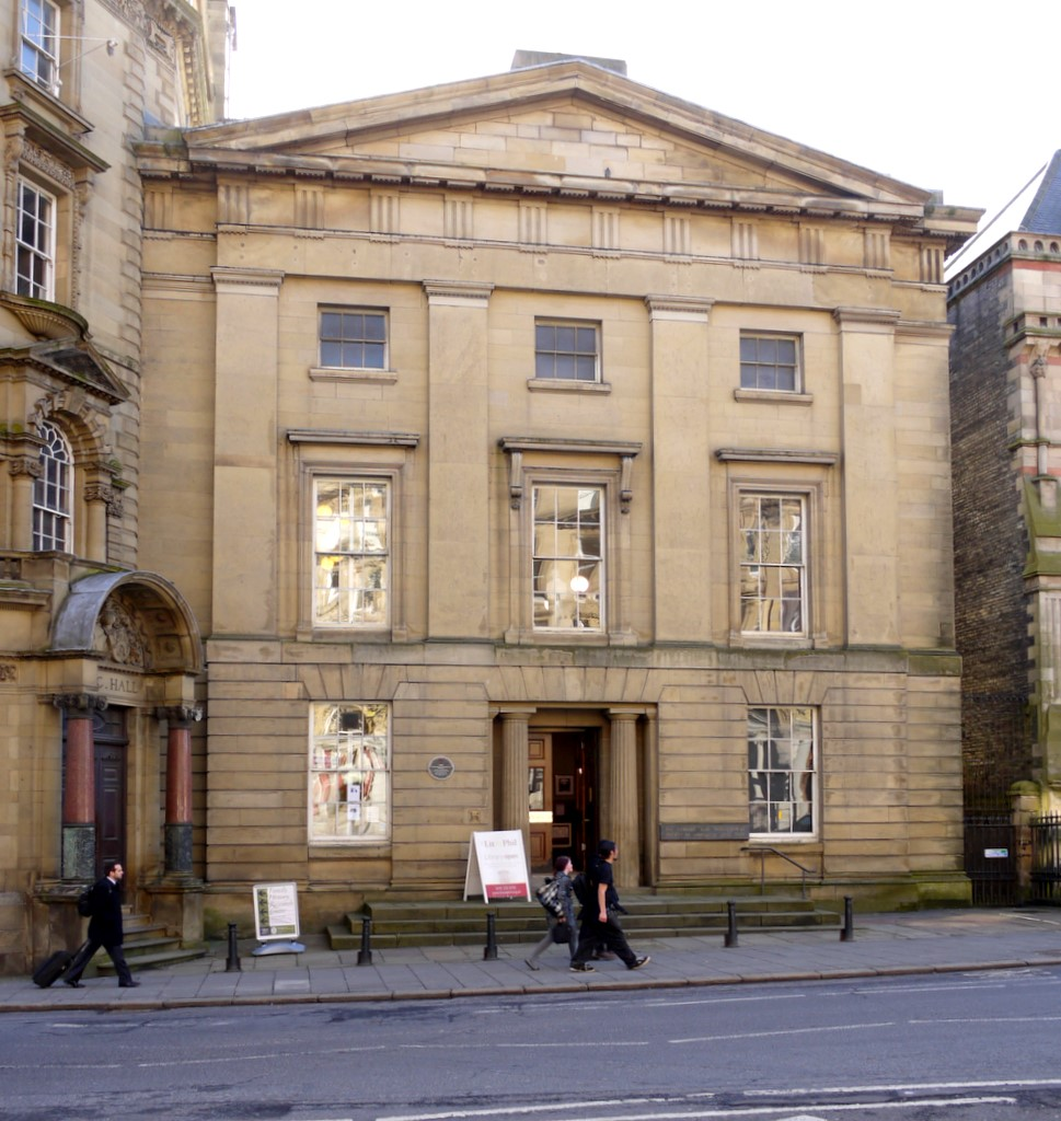 Newcastle Literary & Philosophical Society, Westgate Road John Green designed this building for the 'Lit & Phil' in 1822 in the Greek Revival style that was the fashion of the time.